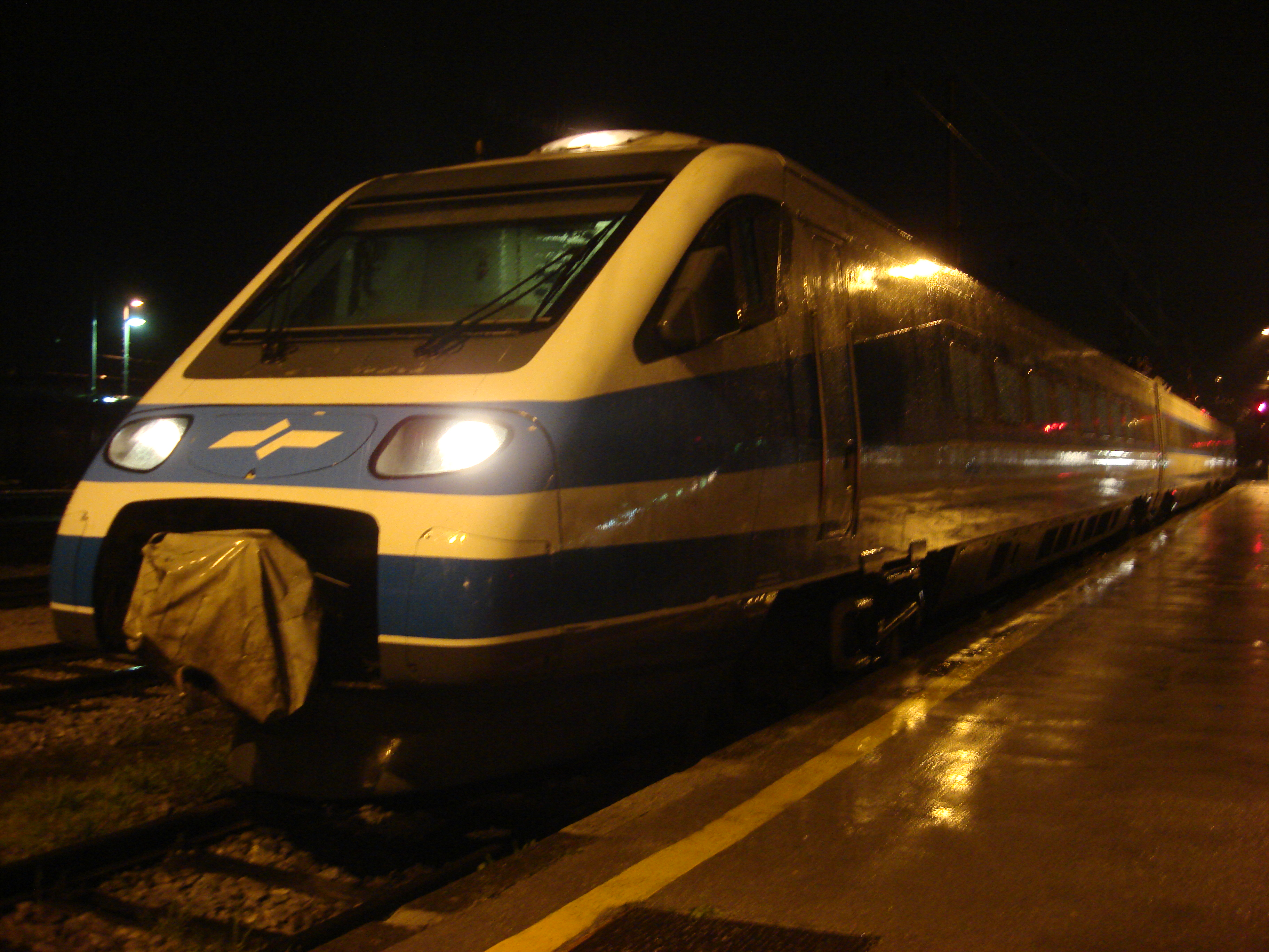 Ljubljana